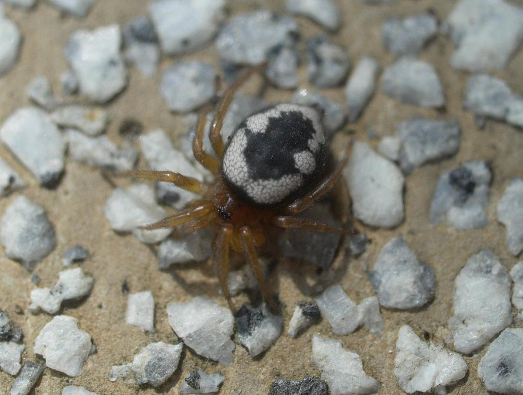 Uroctea compactillis Japanese name:Hiratagumo：ヒラタグモ Date;2009,09.20;Tanabe City, Wakayama prefecture, Japan Author;Keisotyo